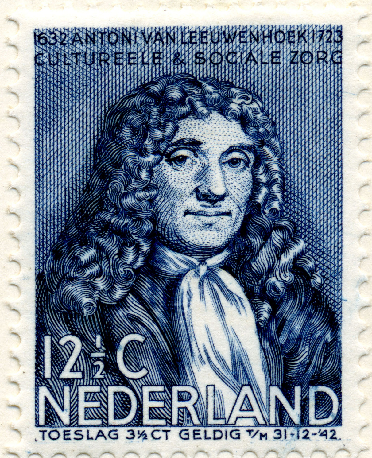 Anton van Leeuwenhoek postage stamps Netherlands 1937